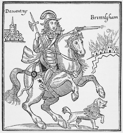 Frontispiece of the Parliamentarian pamphlet A true relation of Prince Rupert's barbarous cruelty against the towne of Brumingham showing Prince Rupert attacking Birmingham during the Battle of Birmingham in 1643.